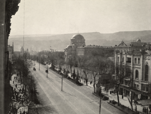 “Golovinsky Prospekt, Tiflis, showing the Garrison Cathedral”. Photograph by Melville Chater